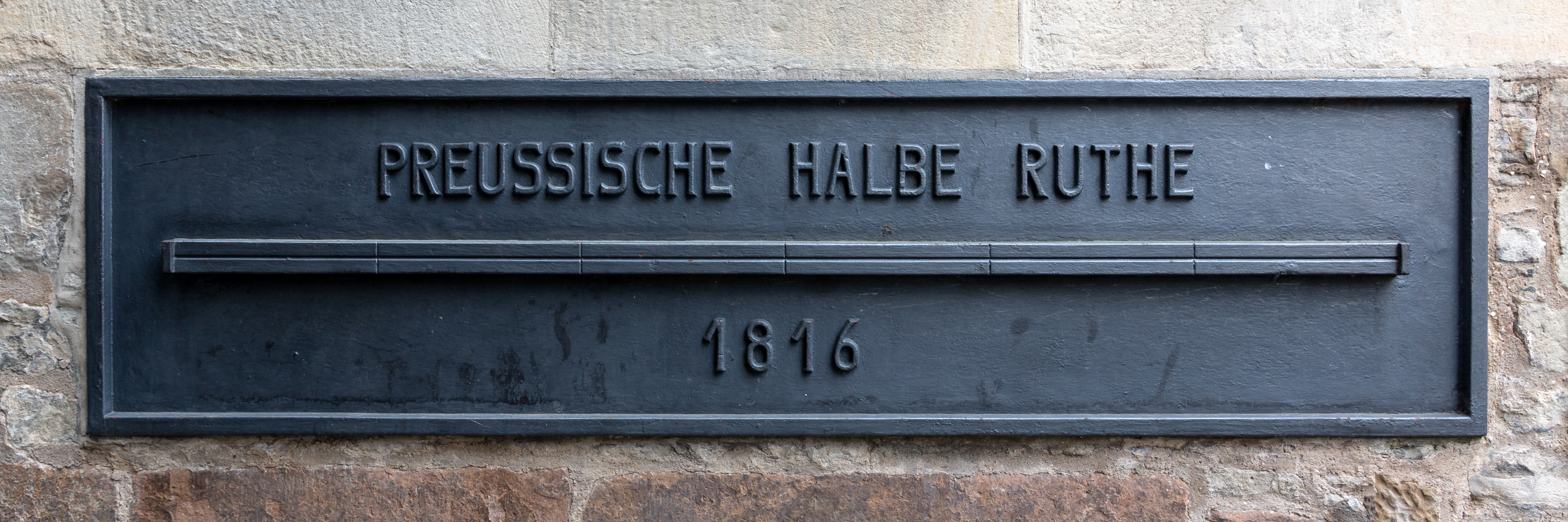 Preußische halbe Ruthe at the historical town hall in Münster, North Rhine-Westphalia, Germany